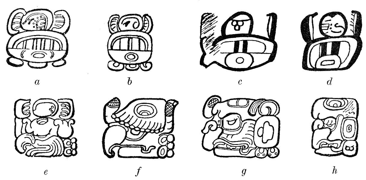 Signs for the katun (see Wikisource usage for further information).